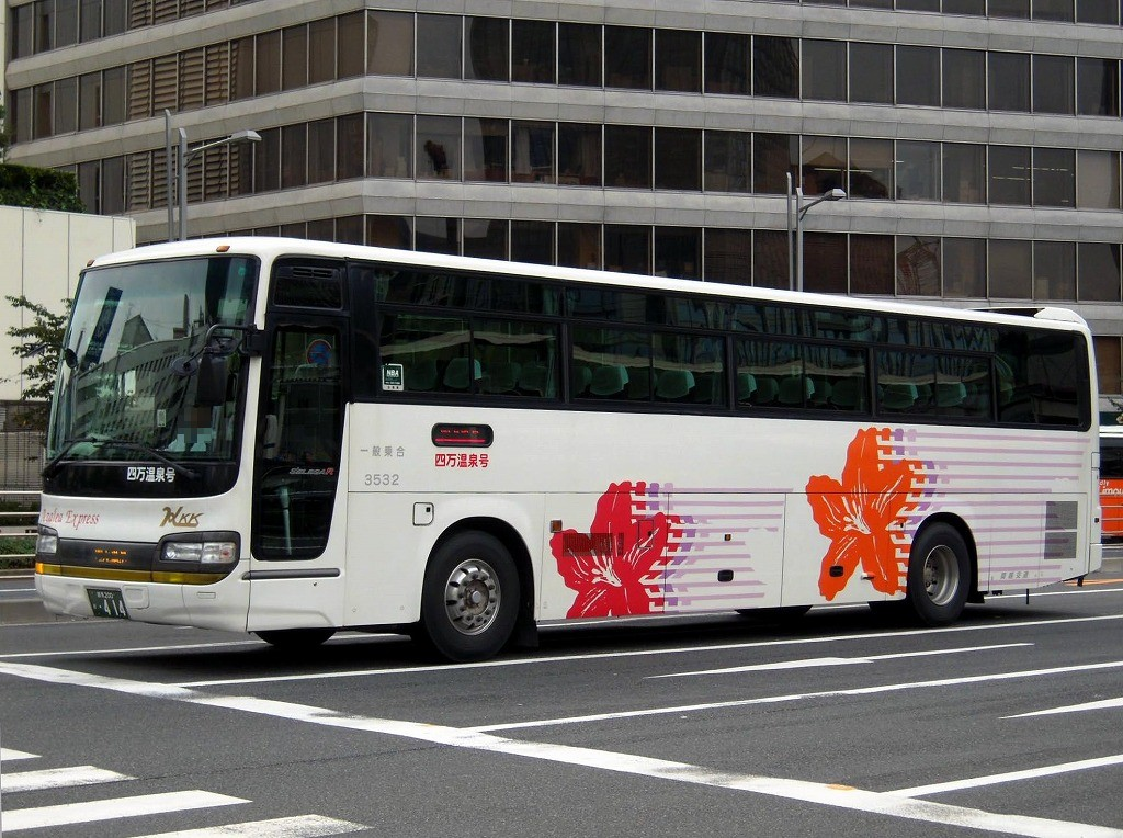 Kan-etsu kotsu Hino S'elega R highwaybus "Shima-onsen-go"